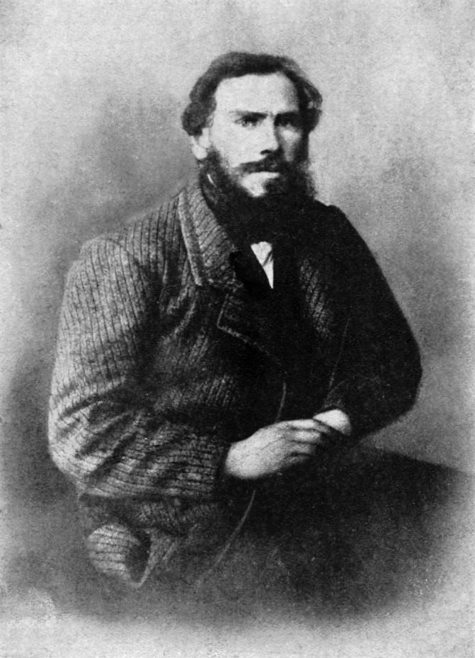 Leo Nikolayevich Tolstoy self-portrait 1860s